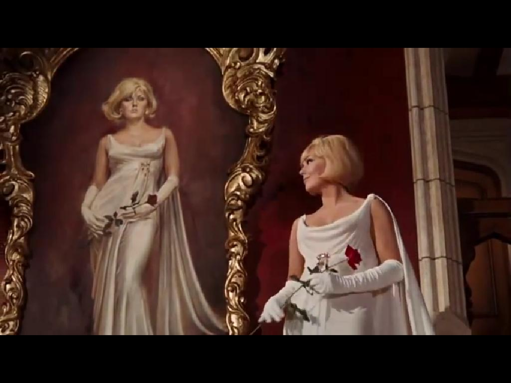 Screenshot from the original 1968 theatrical trailer for the film The Legend of Lylah Clare